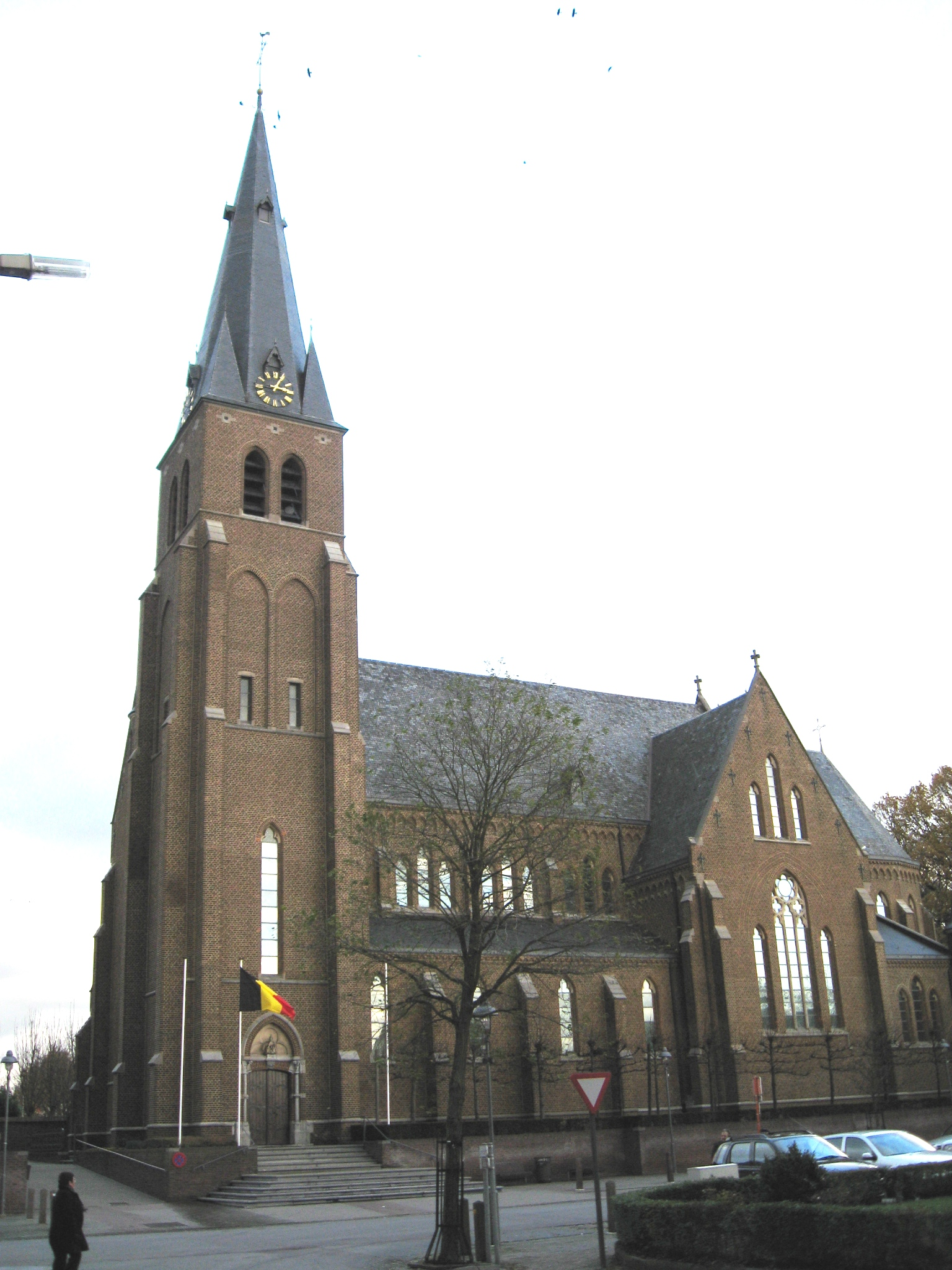 Church of Saint Martin in Dilsen, Dilsen-Stokkem, Limburg, Belgium